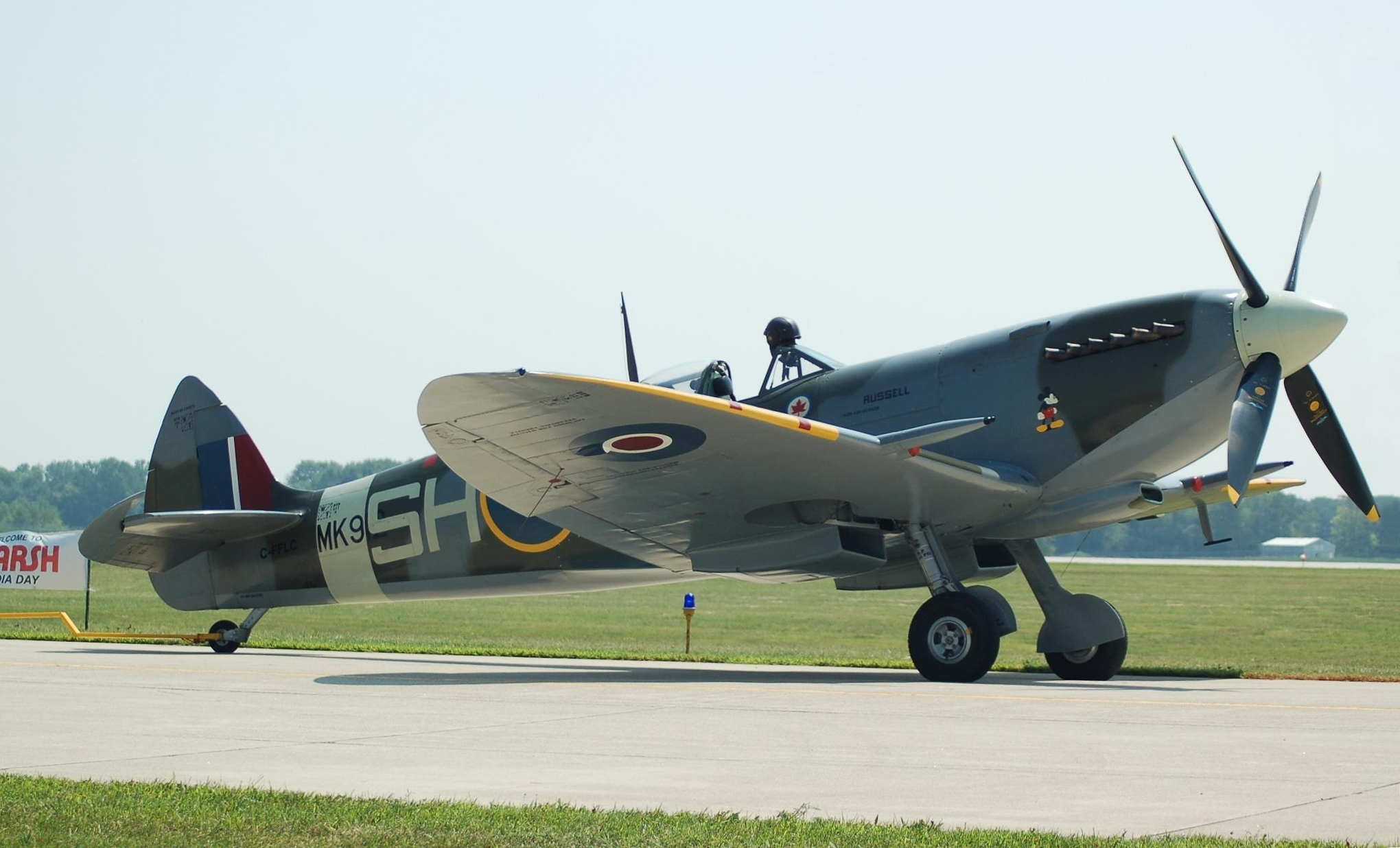 A 1942 Supermarine Spitfire Mk.IX, civil reg C-FFLC belonging to the Russell Aviation Group based at Niagara Falls, Ontario, Canada. The photo was taken on 24 August during the 2008 Indianapolis Air Show which takes place annually at Mount Comfort Airport, Indiana, USA.